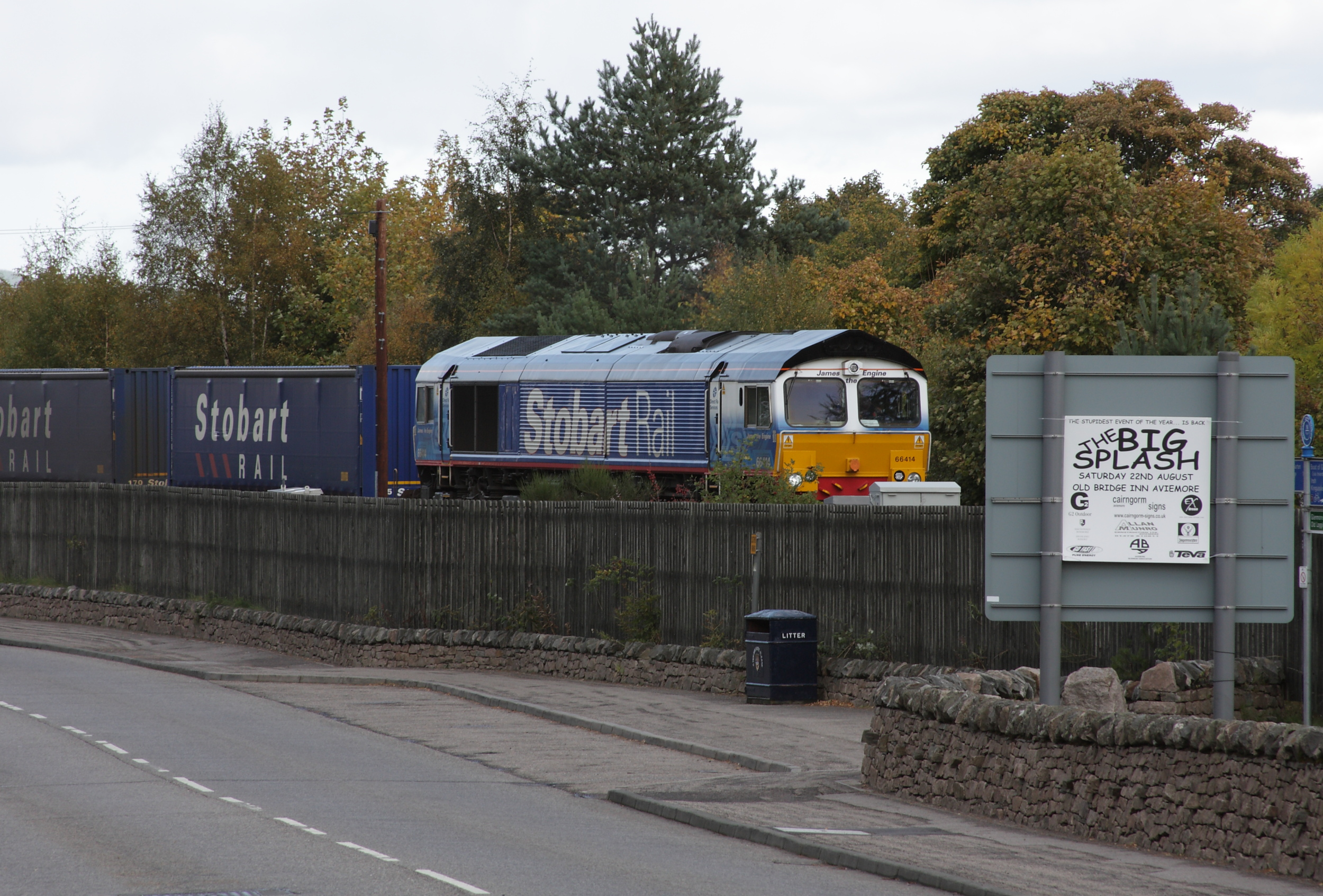 66414 leaves Aviemore with 4N47 Inverness - Grangemouth intermodal Bit of a rushed shot but best I could do .